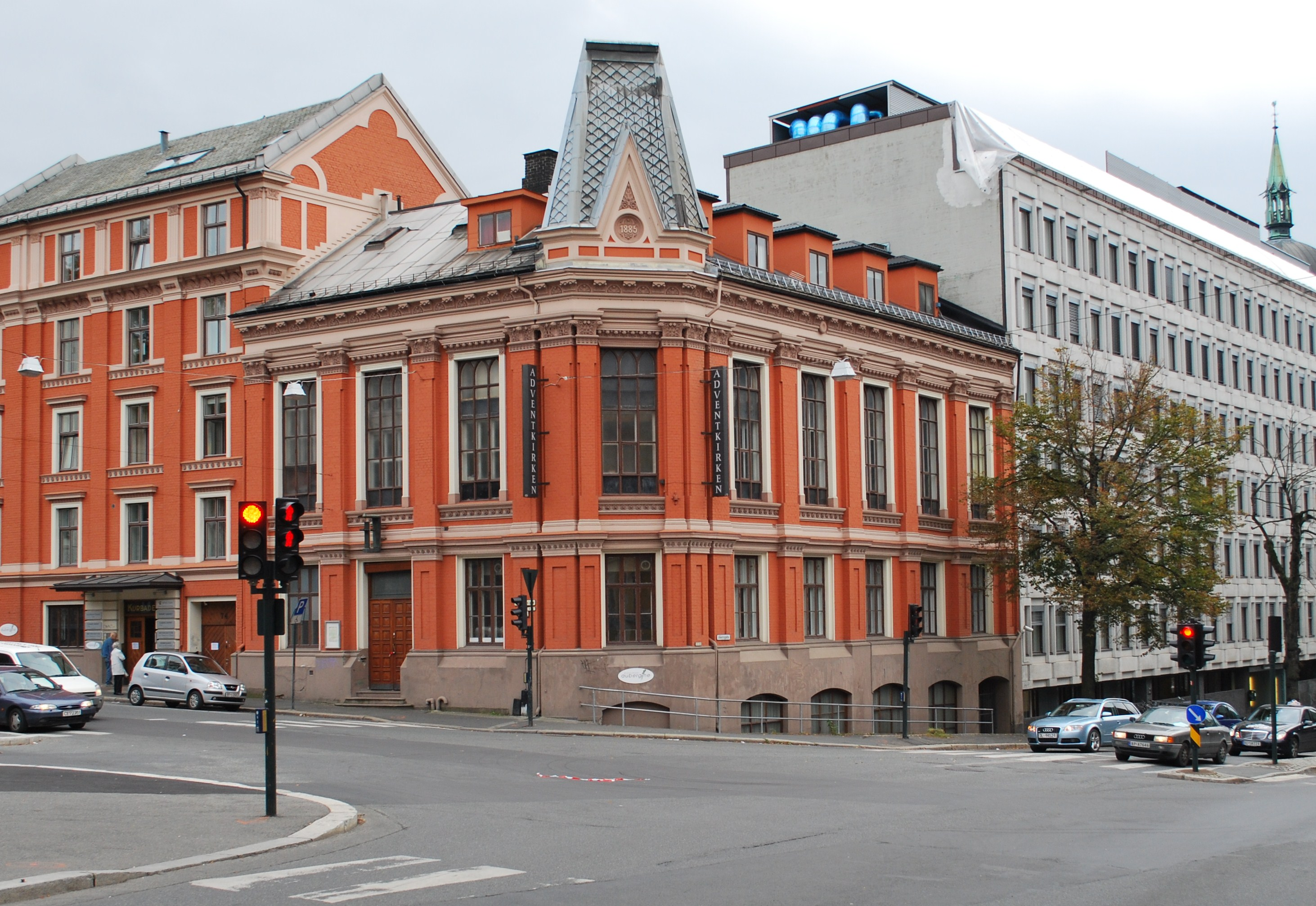 Adventkirken Betel(Seventh-day Adventist Church), Akersgata, Oslo